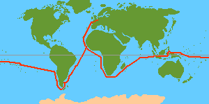 Journey of Jacob Le Maire and Willem Schouten 1615 - 1617